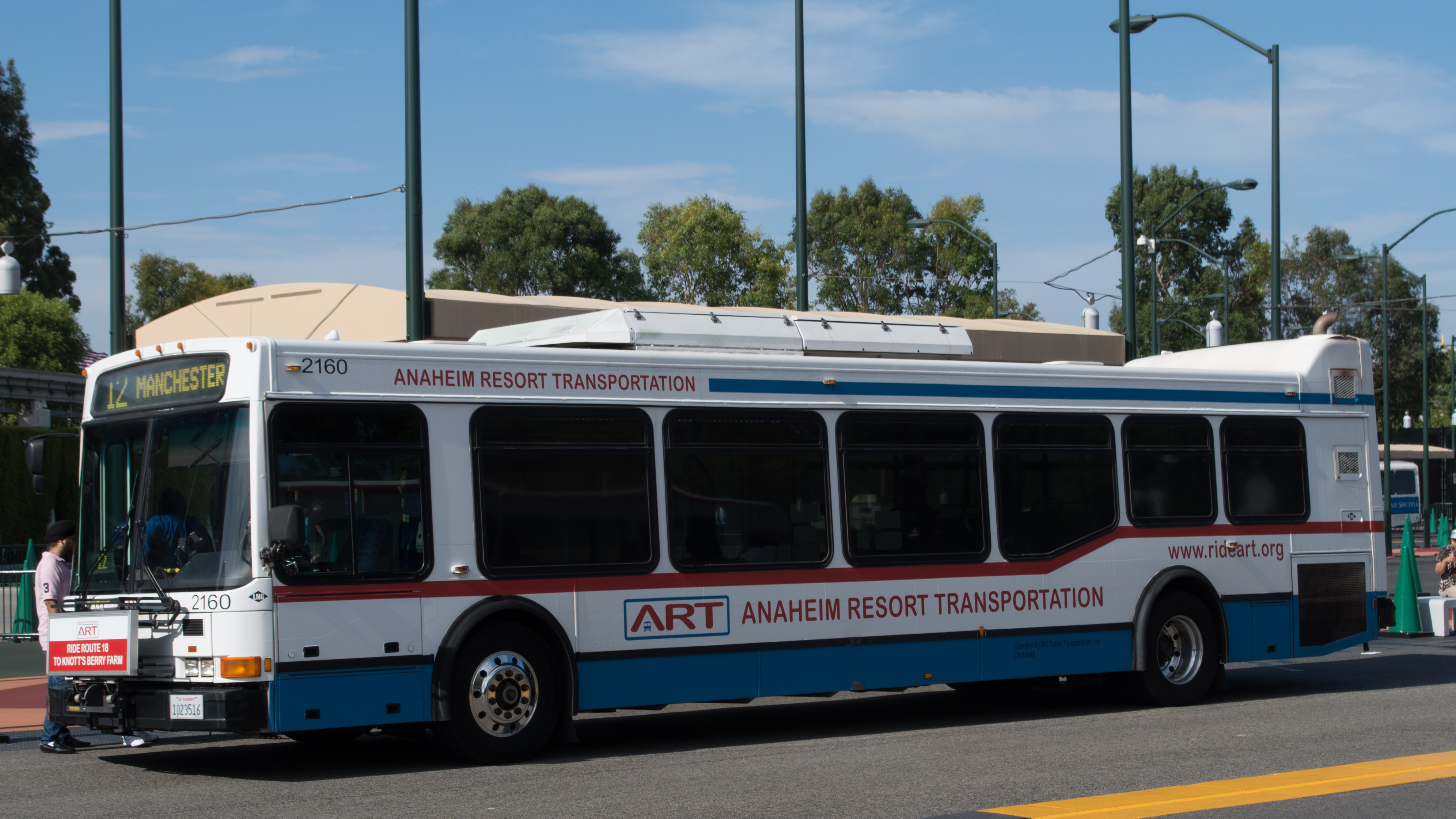 Anaheim Resort Transportation (ART) bus, in the east shuttle area of Disneyland.